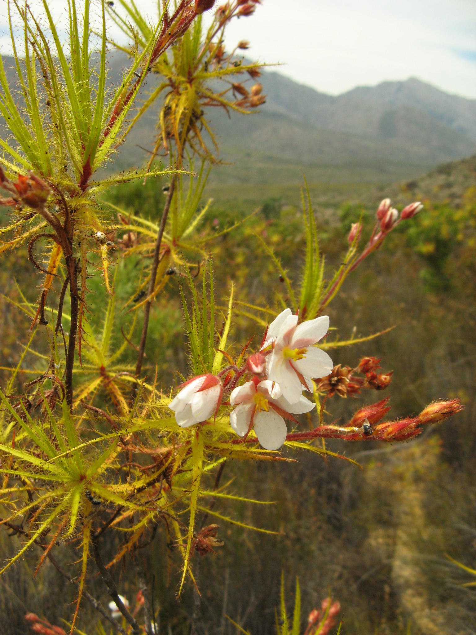 Northern dewstick, Roridula dentata, photographed by Nick Helme, on 9 December 2007, at the road to the south at Groot Winterhoek, near Dasklip Mountain Pass, Piketberg County, Western Cape province of South Africa